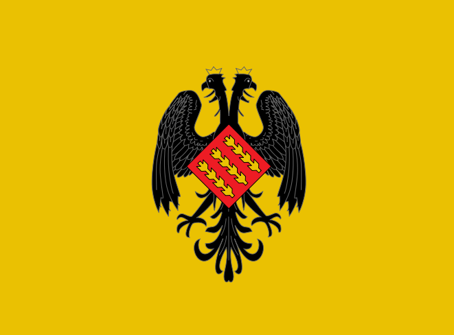 Armorial banner of the Counts of Pallars